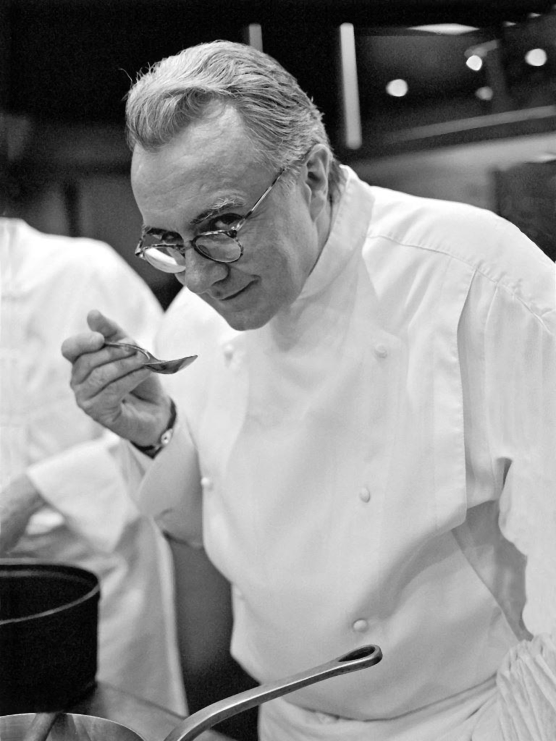 Alain Ducasse operates a number of restaurants including Alain Ducasse at The Dorchester which holds three stars in the Michelin Guide.